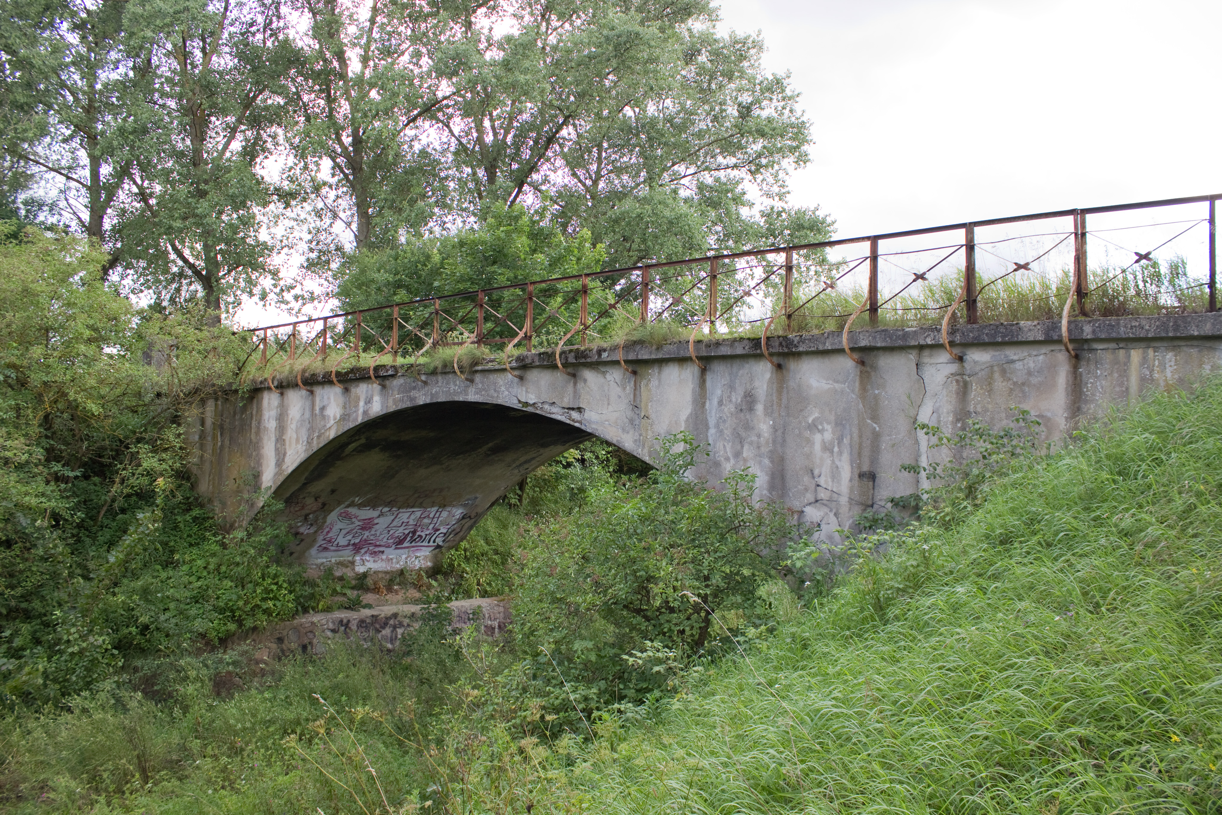 Bridge, Czerniki, gmina Kętrzyn, powiat kętrzyński, Warmian-Masurian Voivodeship